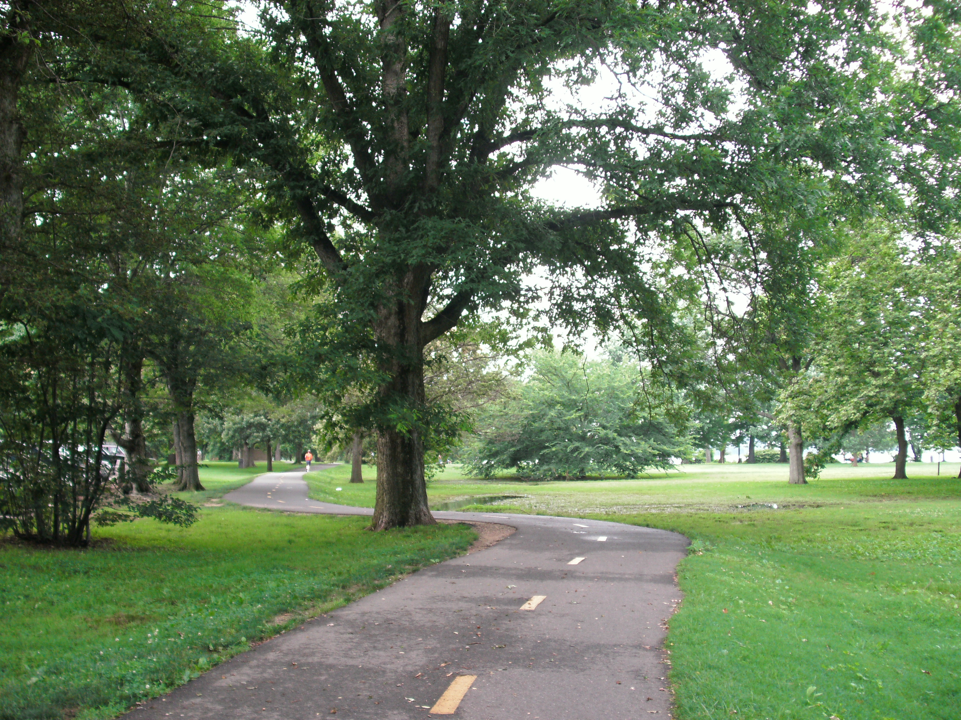 Image I took for Wikipedia